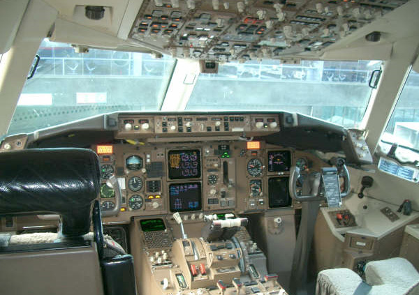 AeroMexico Boeing 767-300/ER Cockpit